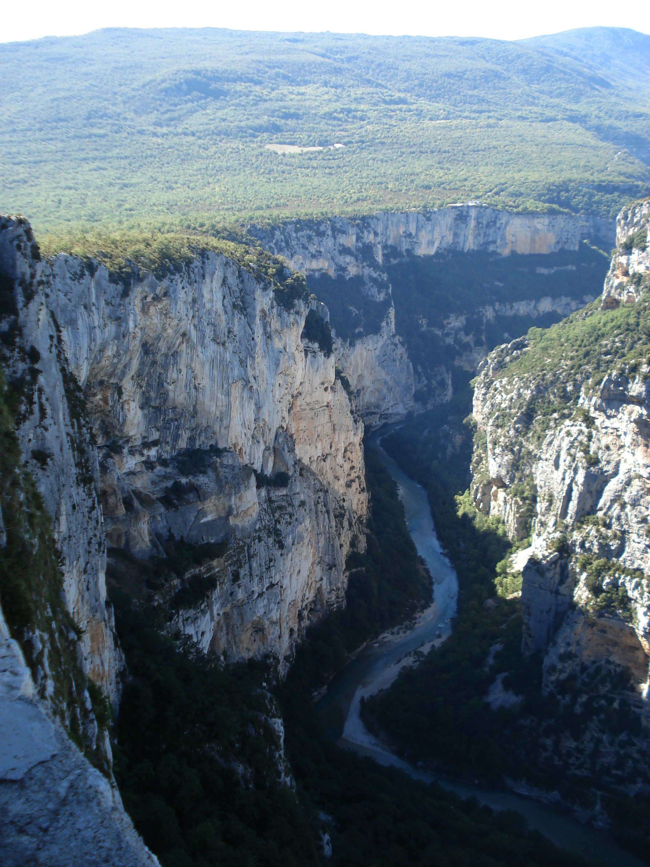 Gorges du Verdon